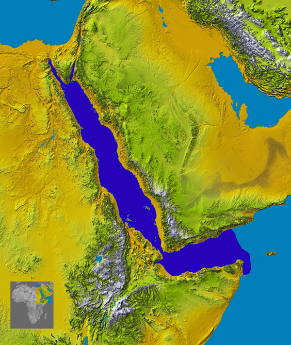 range map of Ichthyaetus leucophthalmus (White-eyed Gull)